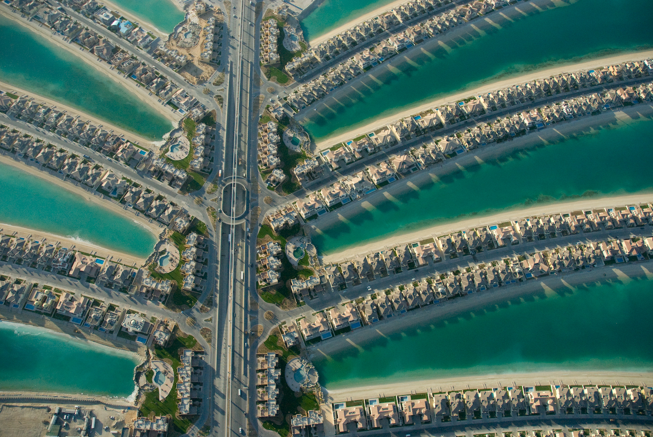 The Center Core of the Palm Jumeirah - March, 2008